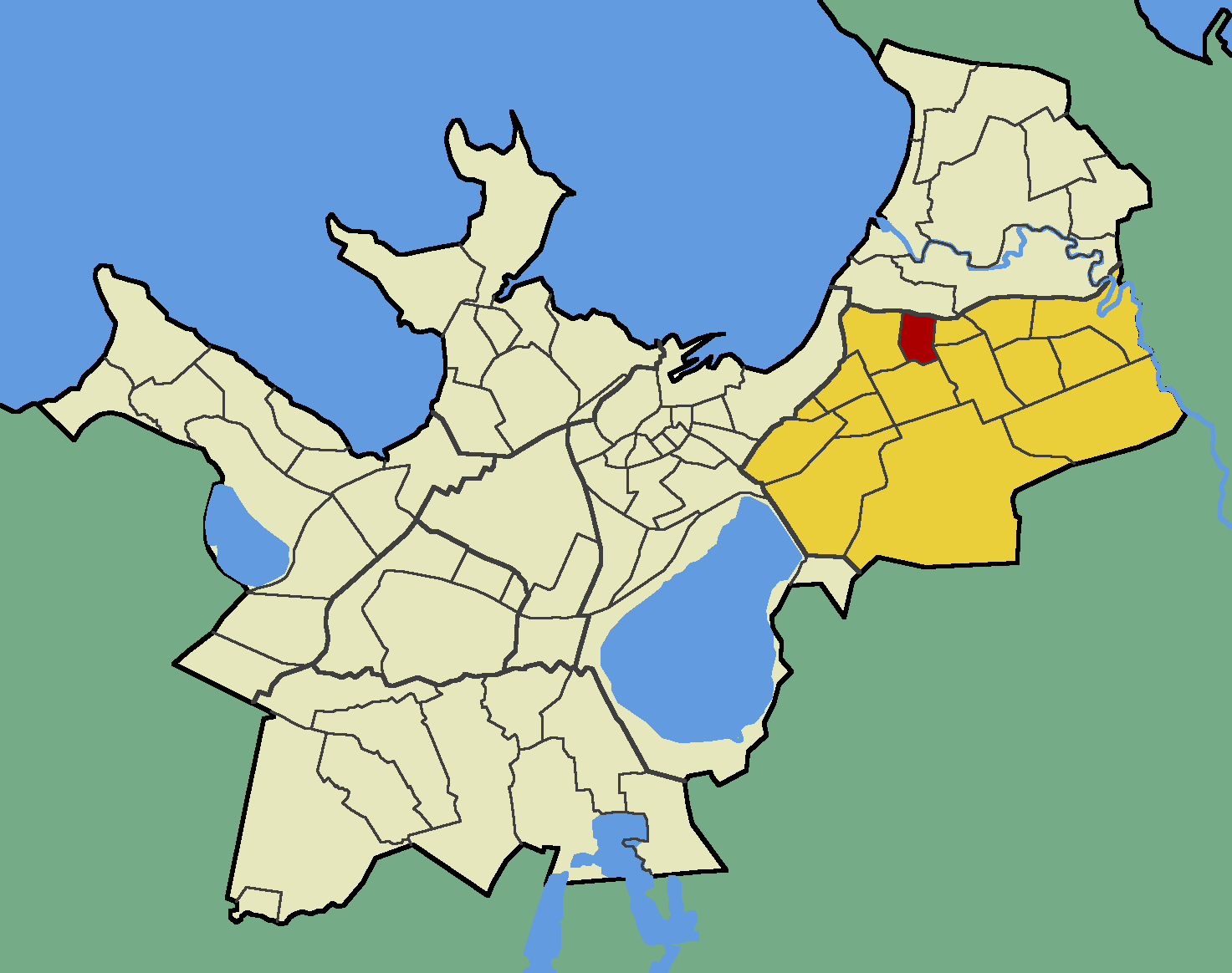 Map of Tallinn (Estonia) with borders of the quarters, Lasnamäe district and Loopealse quarter emphasised